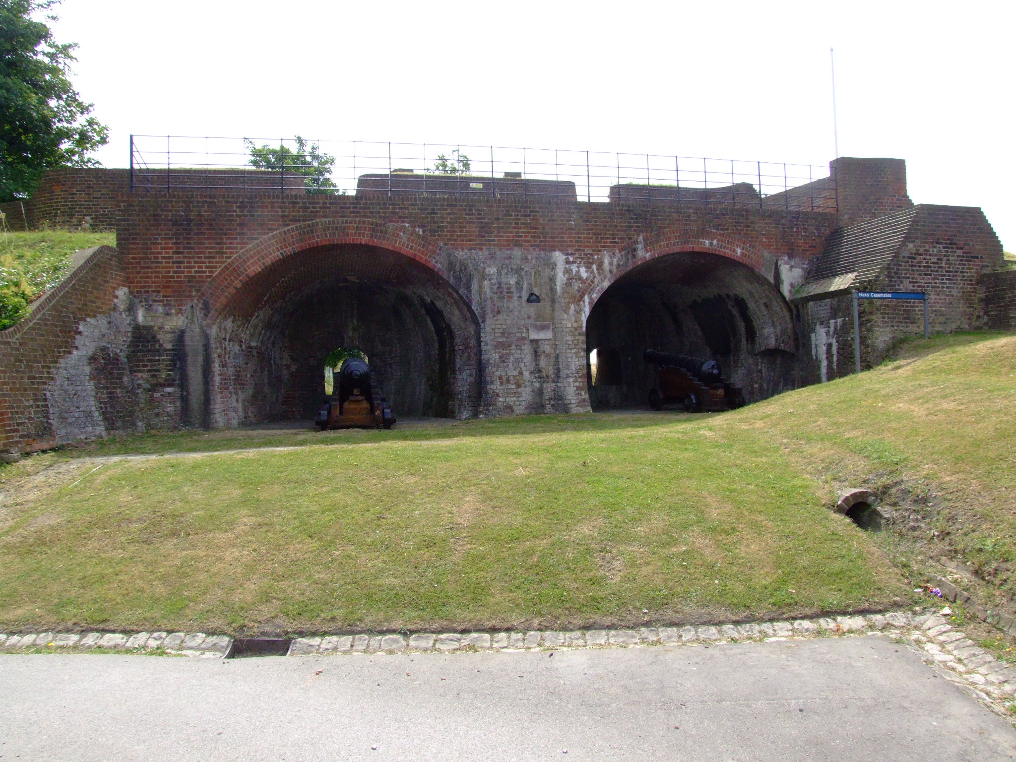 Fort Amherst defends Chatham Dockyard in Kent. Haxo casemates. - Google Maps - Google Earth